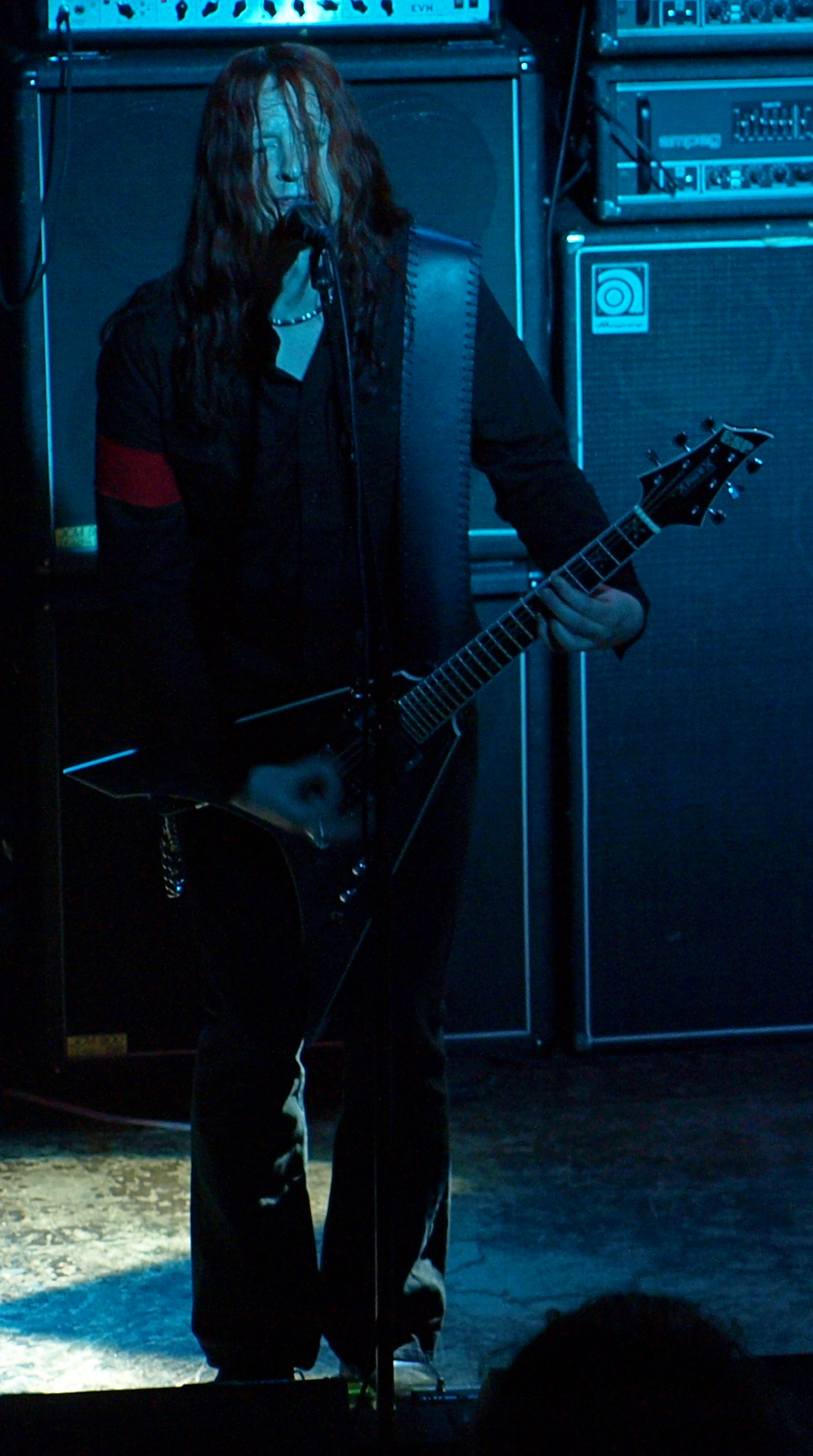 Swedish melodic death metal band Arch Enemy